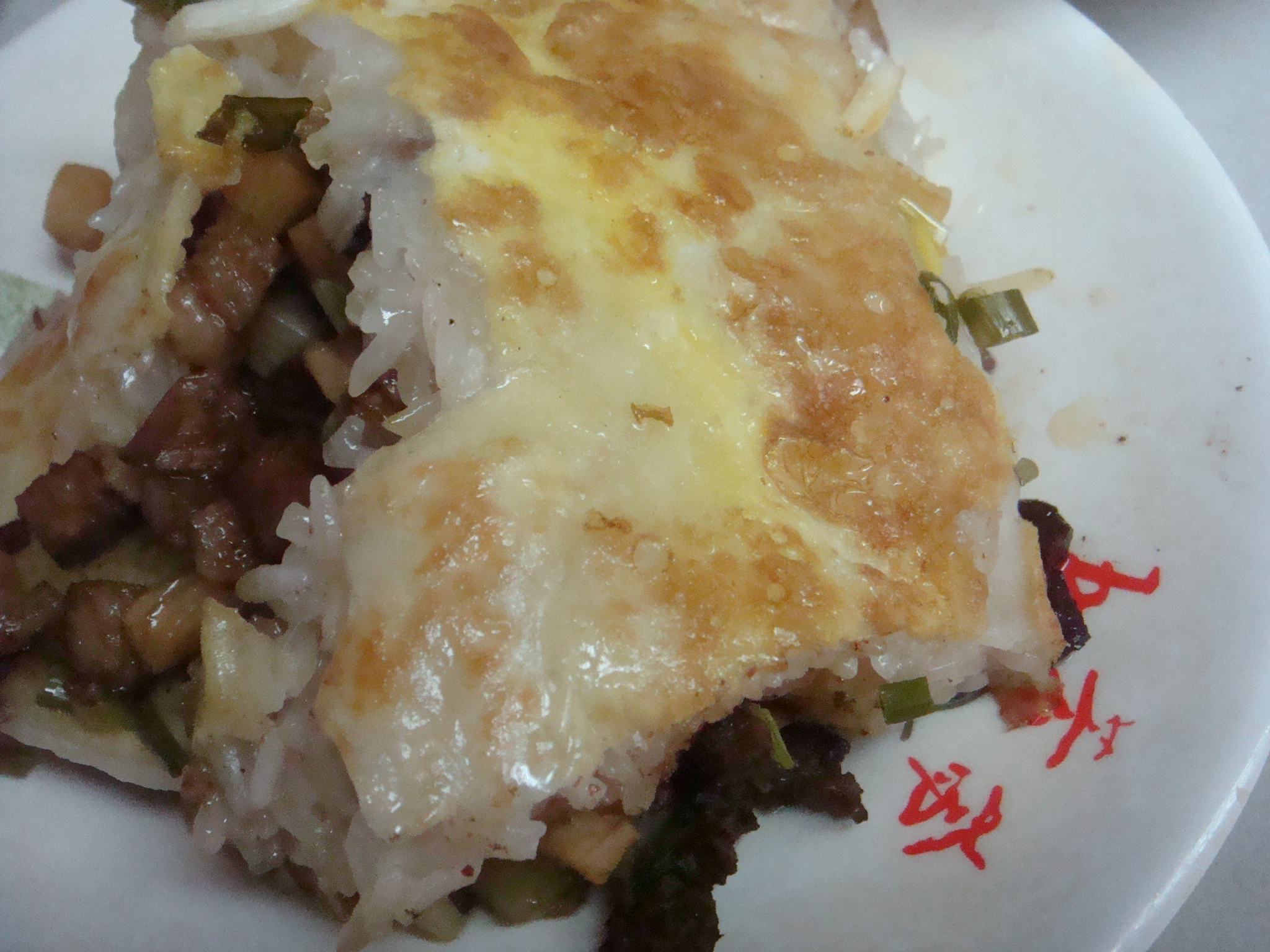 A piece of Doupi, a traditional item for breakfast.